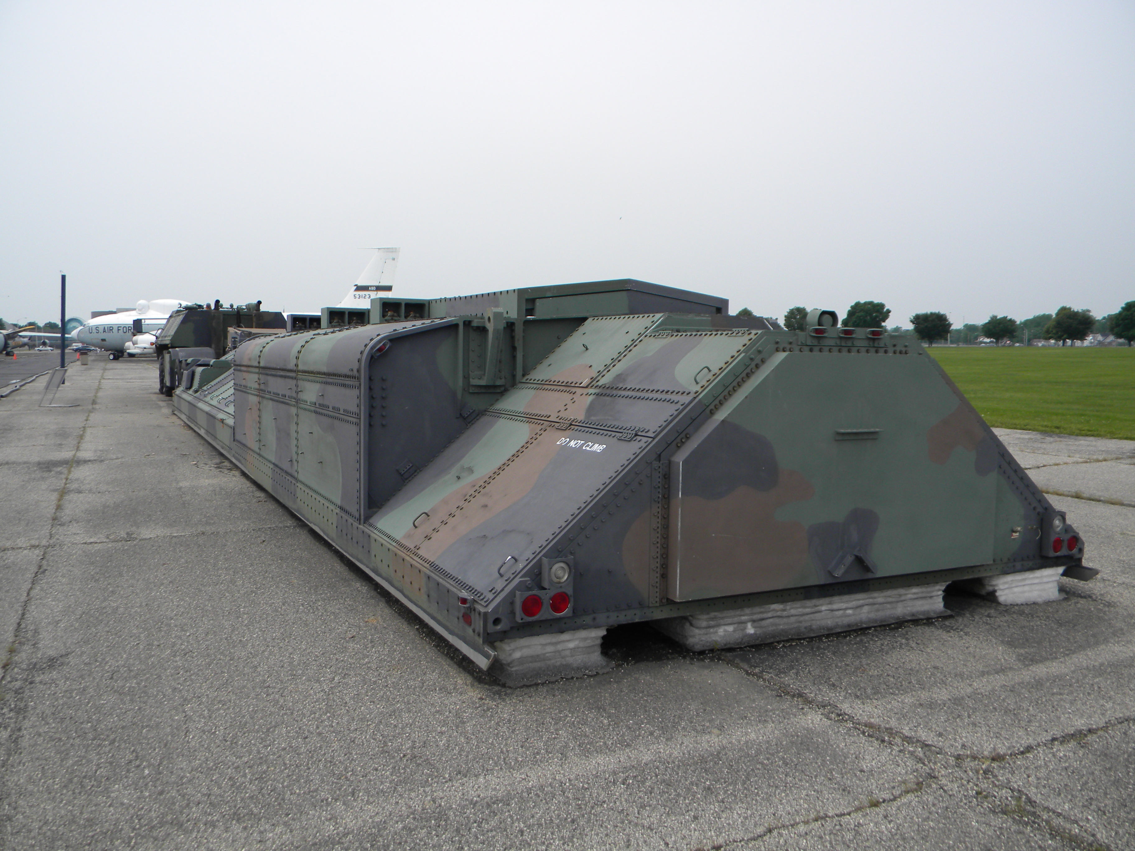 MGM-134A Small ICBM Hard Mobile Launcher